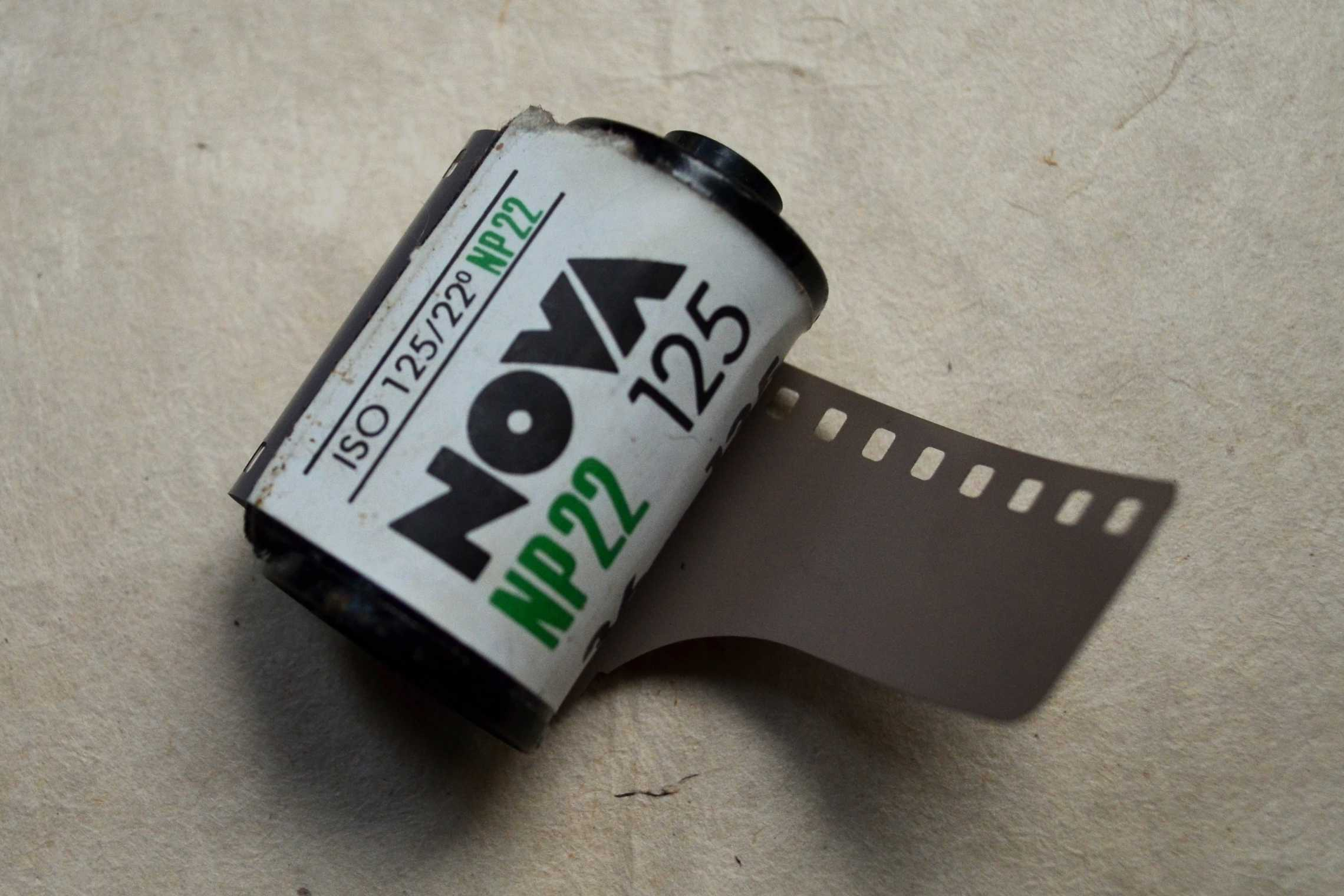 A roll of 35mm (135) film. Note: This is an original depiction of a three dimensional utilitarian object.